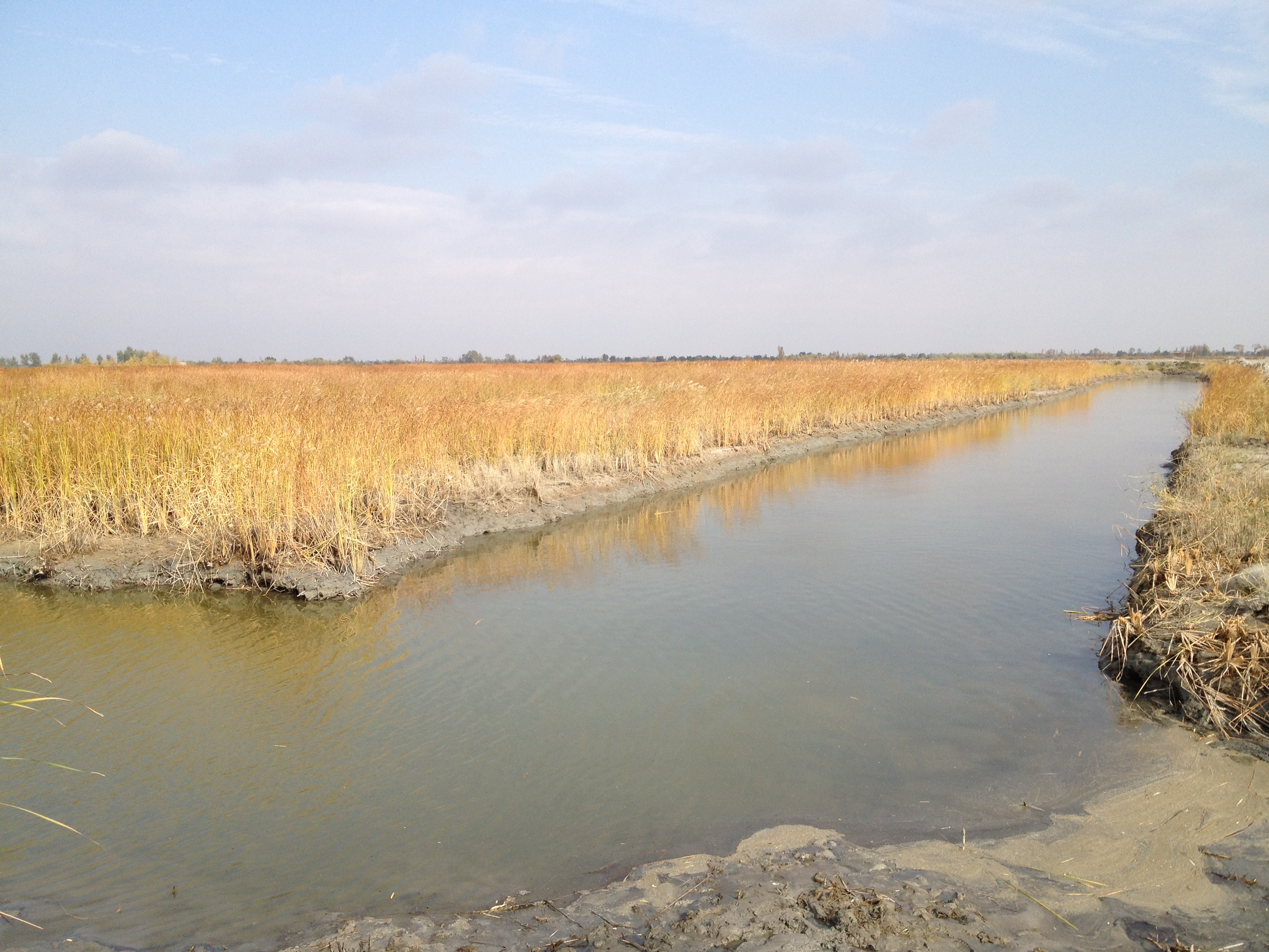 Jarmishkul lake, Khorazm region Oʻzbekcha/ўзбекча: Jarmishko`l, Xorazm viloyati